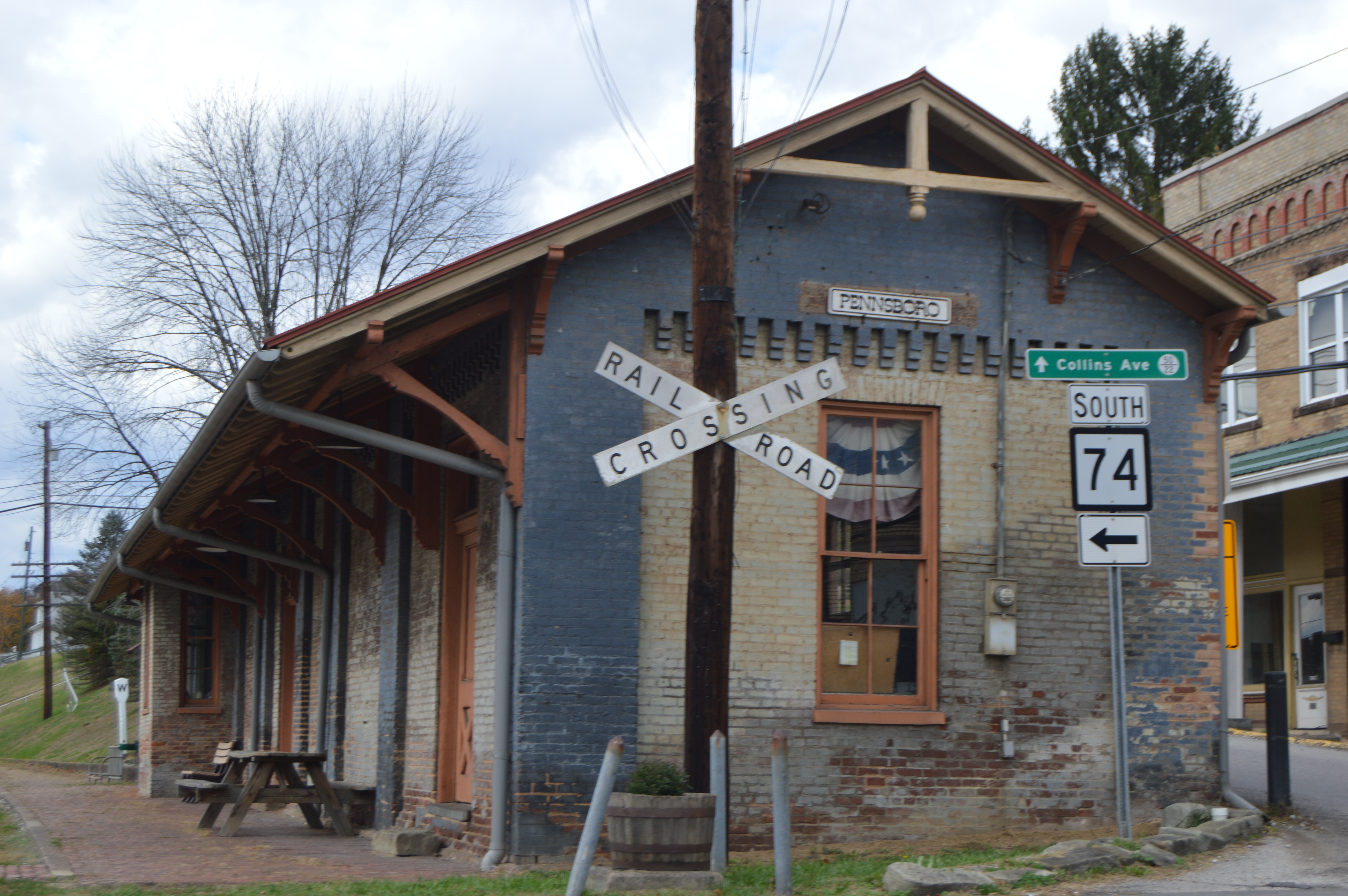 Front of the Pennsboro B&O Depot, located at the junction of Broadway (West Virginia Route 74) and Collins Avenue in Pennsboro, West Virginia, United States. Built in 1883, it is listed on the National Register of Historic Places.